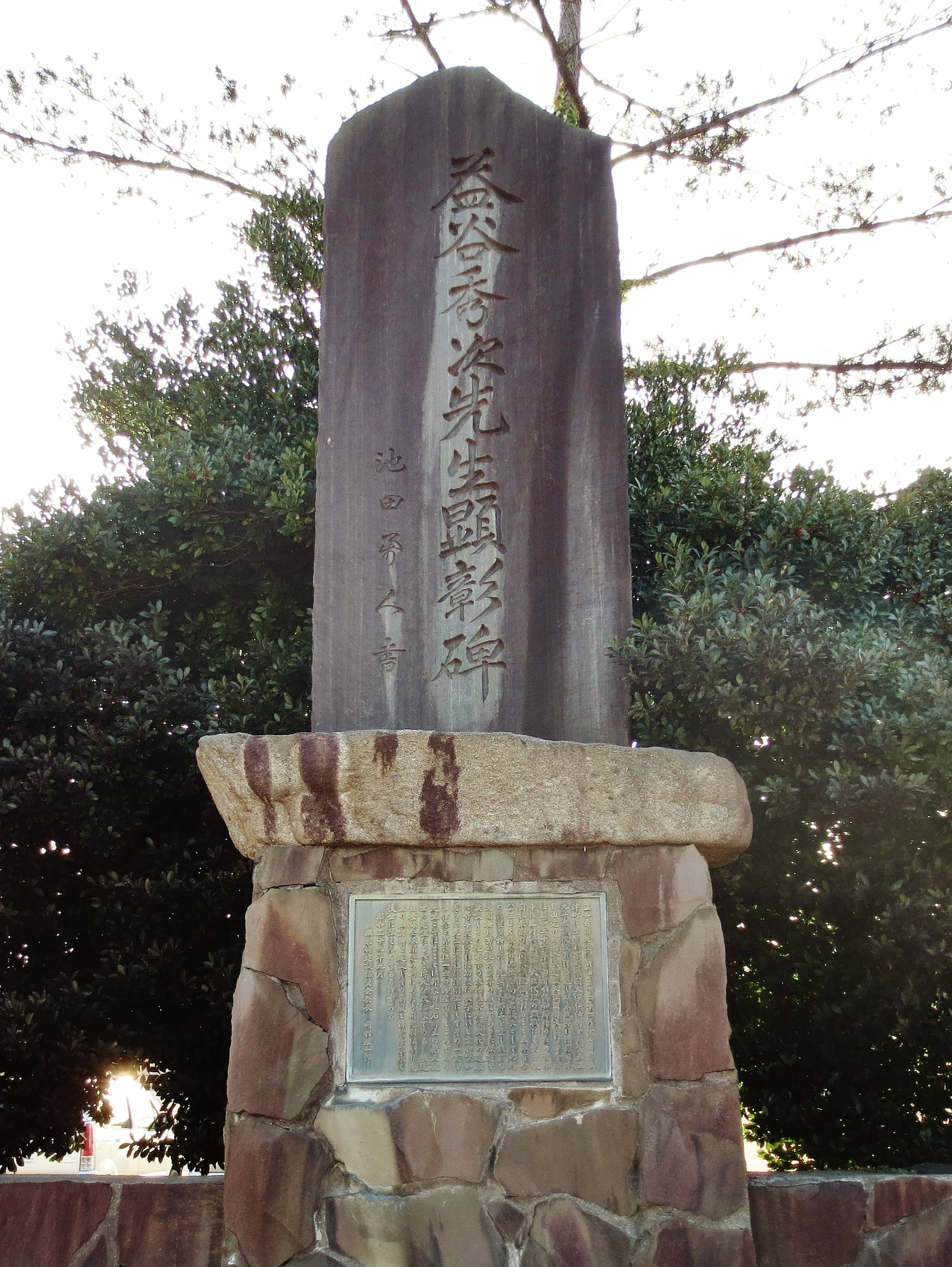 Masutani Shuji monument.